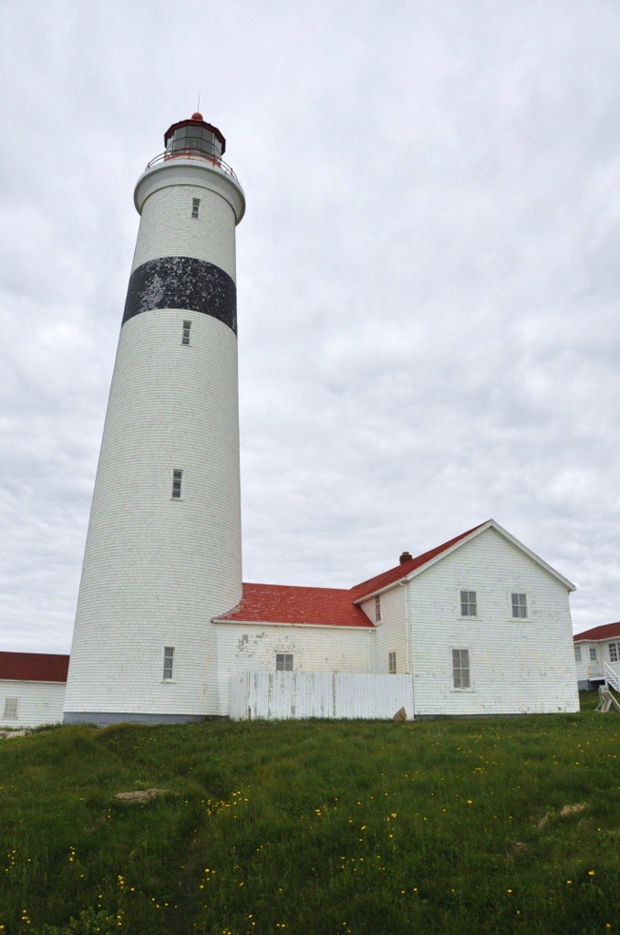 Lighttower, Labrador.